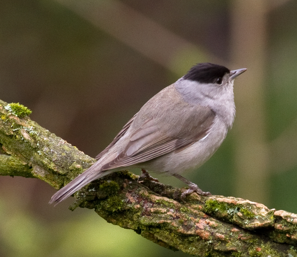 A male Eurasian Blackcap in Lyng, West Bromwich, England.